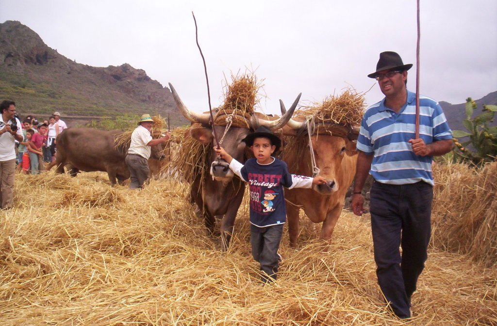 We met this young man, learning to drive at last year's Day of Traditions. This year, naturally, he's taller and looked much more confident with the animals. Perhaps it's because he's got a new hat, just like dad's? – See where this picture was taken. [?]